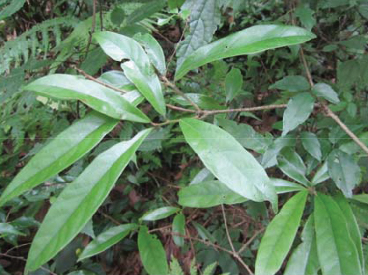 Phoebe hunanensis Hand.–Mazz. (Lauraceae) is a shrub with the leaf blade lanceolate, and leaves close to leathery texture.